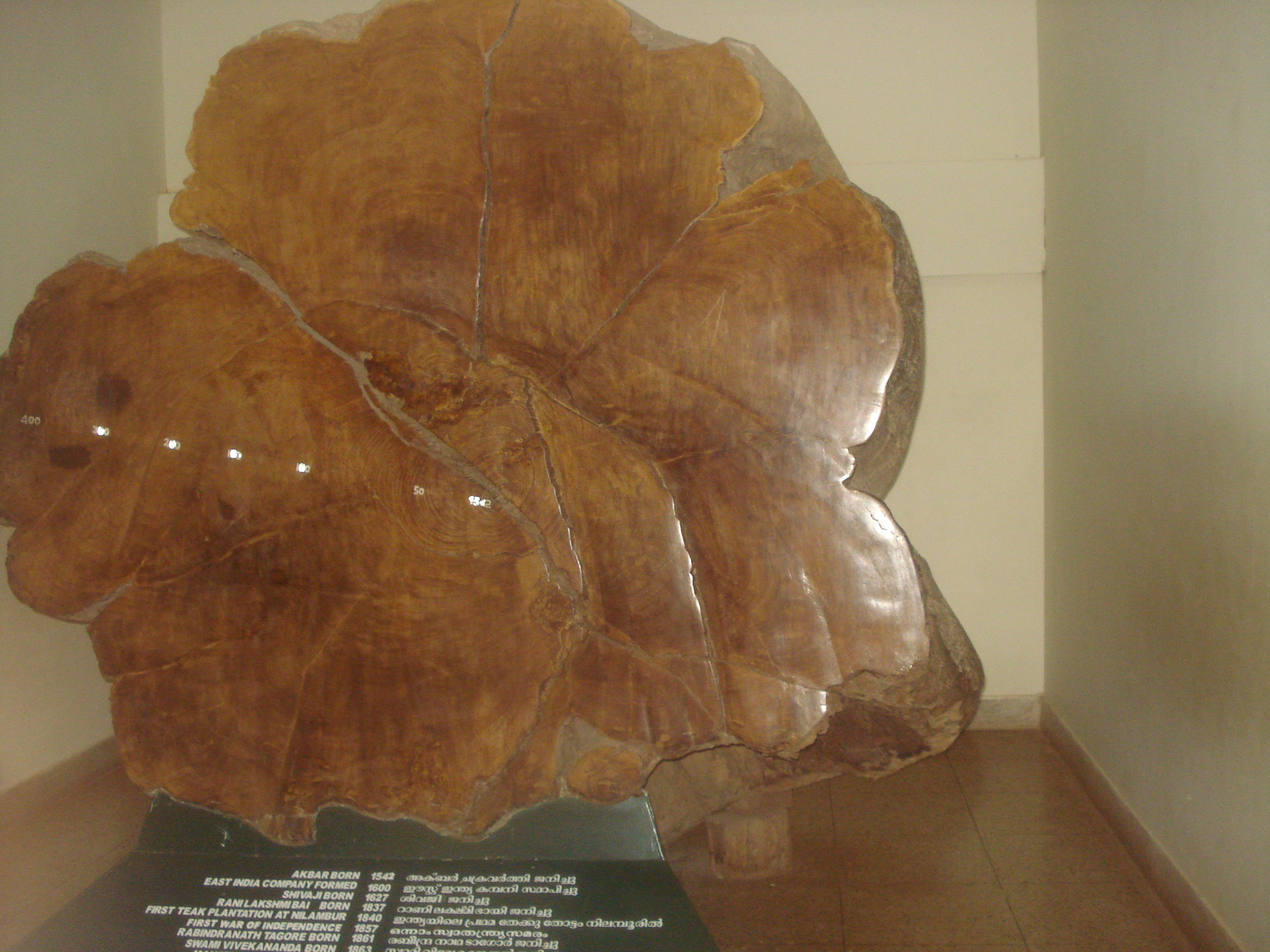 The cross section of a Teak Wood which lived more than 450 years.